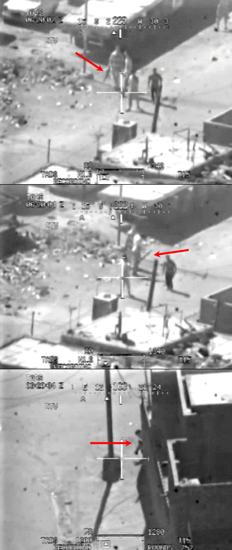 Three targets of the July 12, 2007 Baghdad airstrike. Transcript A: "Hotel 2-6, this is Crazy Horse 1-8. Have individuals with weapons. Yep, he's got a weapon, too. Hotel 2-6, Crazy Horse 1-8. Have 5 to 6 individuals with AK-47s. Request permission to engage." Transcript B: "He's got a RPG. Alright, we got a guy with an RPG. I'm gonna fire."